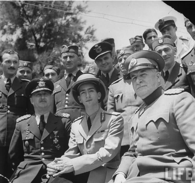 Peter II of Yugoslavia